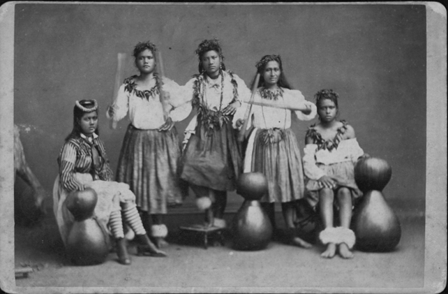 Five of Ioane Ukeke's hula dancers.